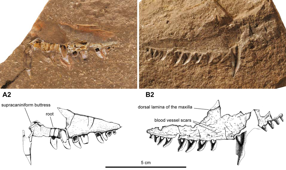 Neosaurus cynodus (holotype HN004 2009‐00‐1). A, left maxilla (HN004 2009‐00‐1 A) in lateral view. B, corresponding impression (HN004 2009‐00‐1 B) in lateral view. Drawings by Peggy Vincent.